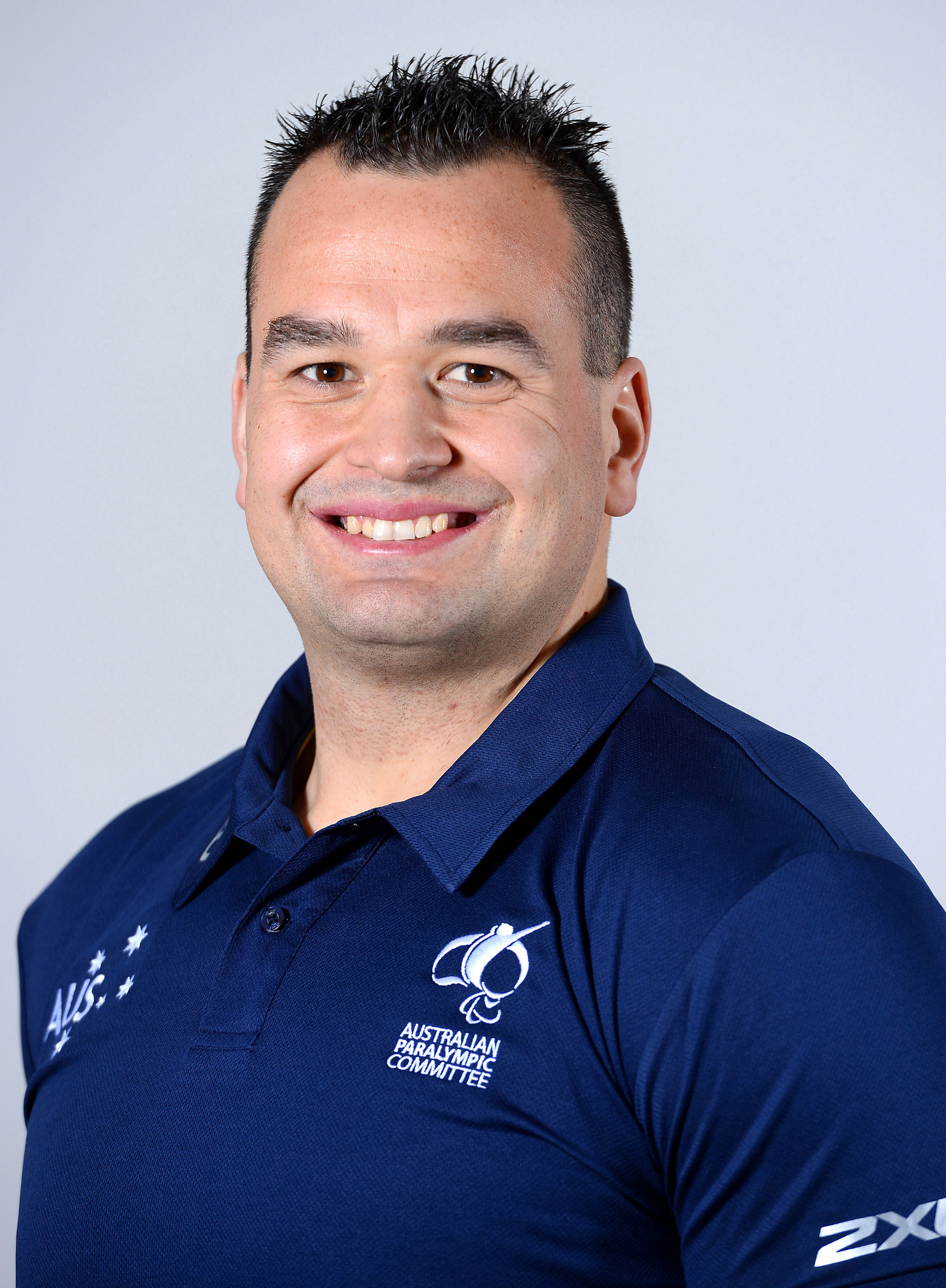 Portrait photograph of Todd Hodgetts taken at team processing session for shadow members of 2016 Australian Paralympic team